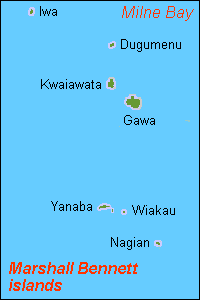 Map (rough) Marshall Bennett islands, Papua New Guinea, own work composed from various map references.